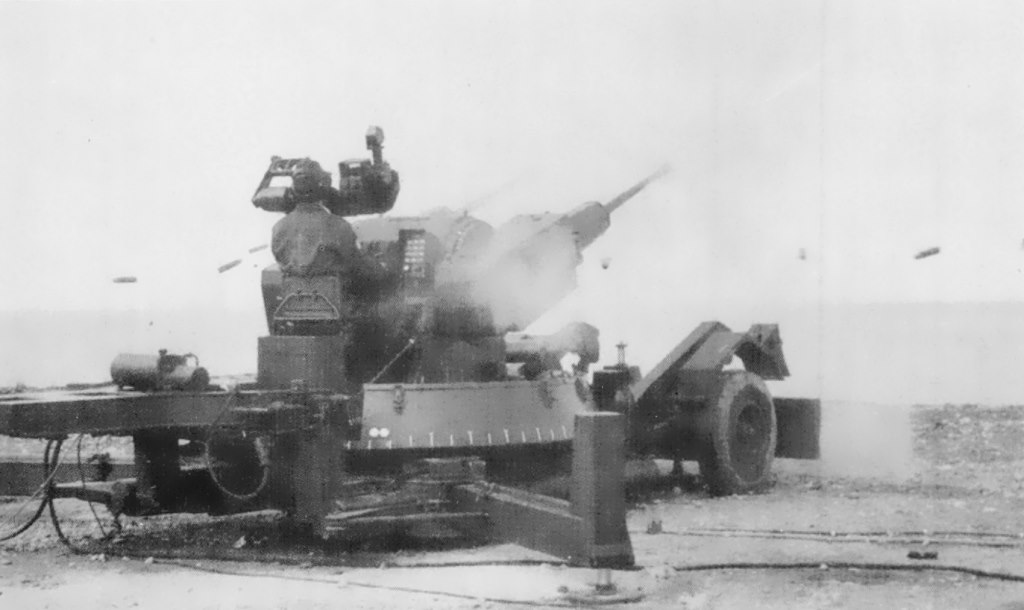 Artemis 30 live fire